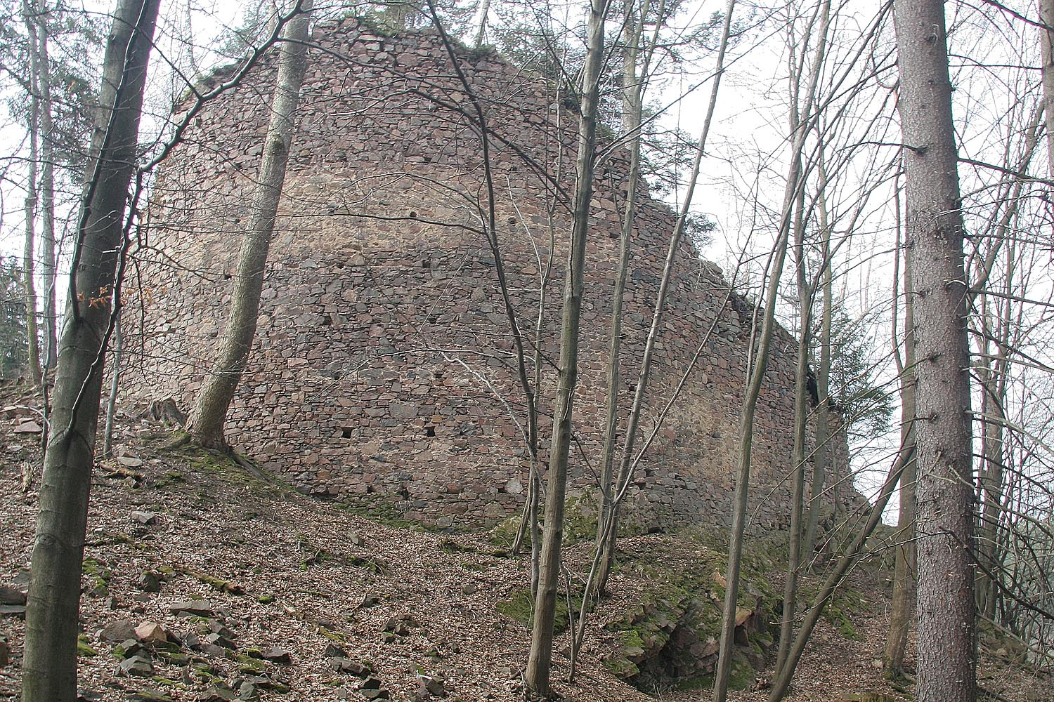 Ruins of castle Strádov, district Chrudim, Czech Republic autor: Prazak date: 1. 4. 2007